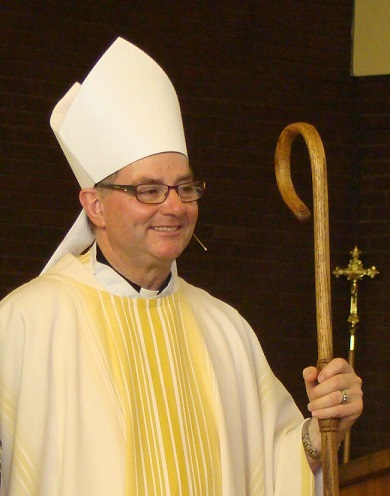 Photograph of James Patrick Powers, a Roman Catholic Bishop.